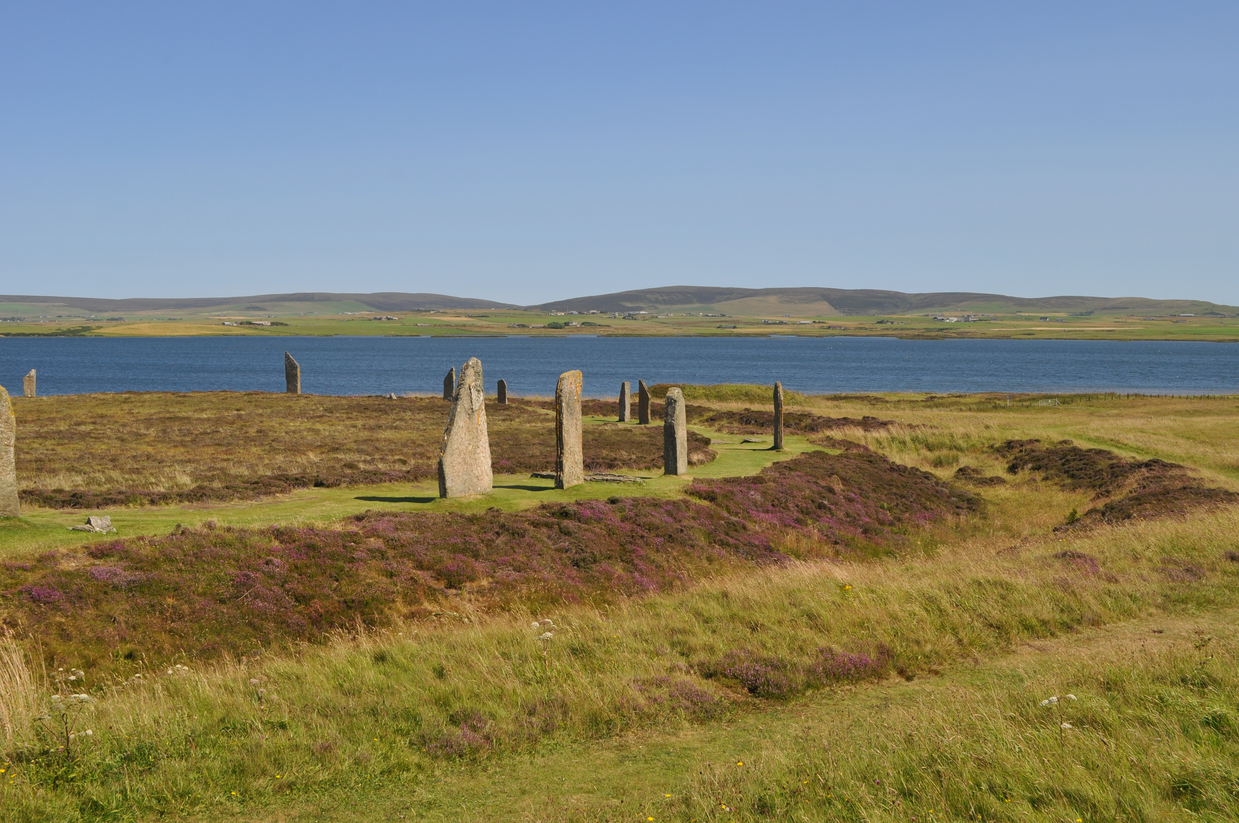 Ring of Brodgar, formerly known as the Ring of Brogar, a neolithic stone circle and henge monument, with the Loch of Harray in the background.